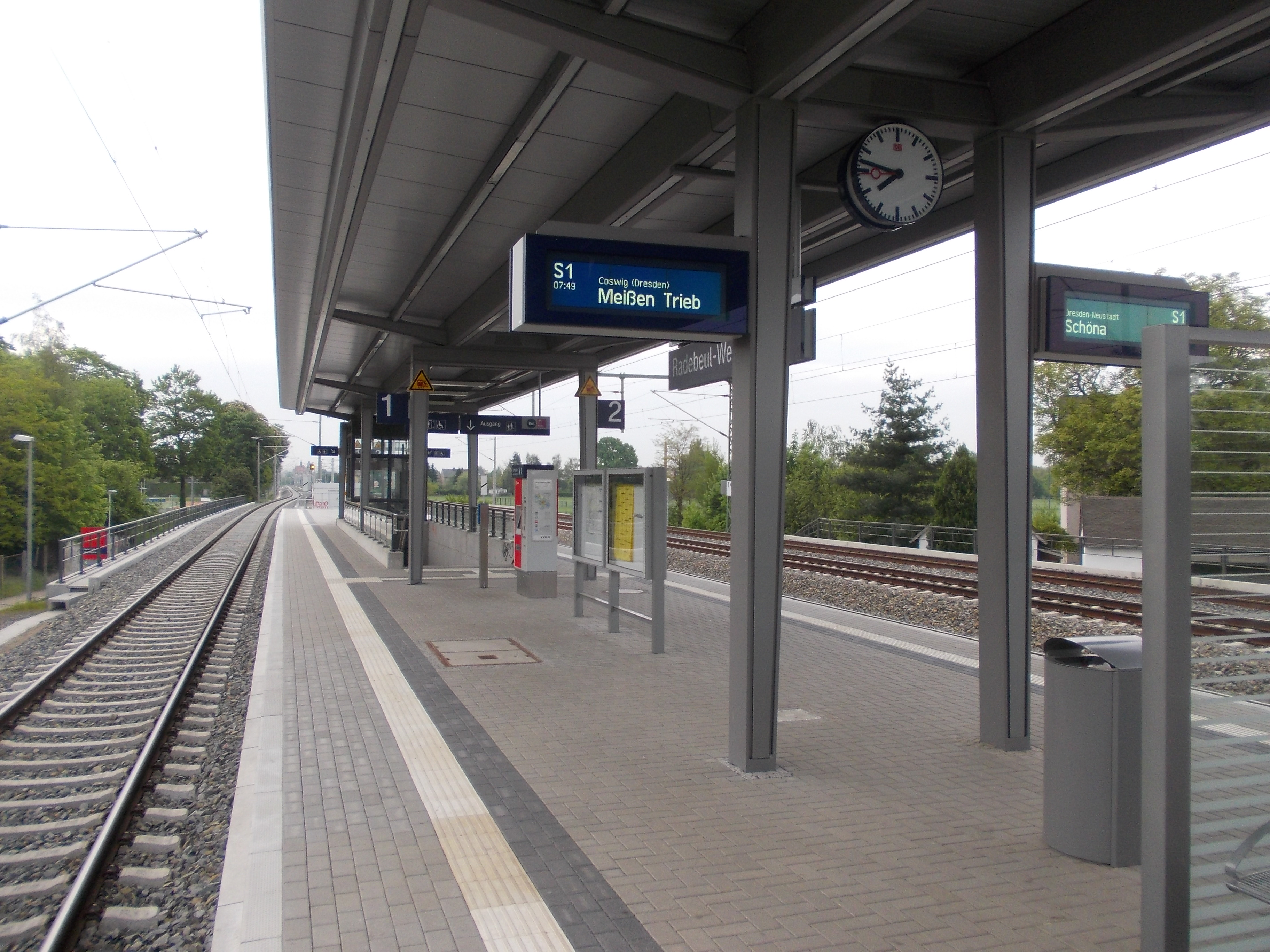 Radebeul-Weintraube railway station: View towards Radebeul Ost and Dresden